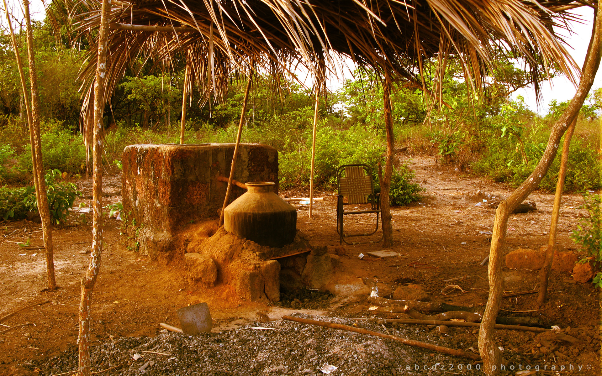 The traditional method of distilling cashew fenny in Goa, India takes place on the hill. The cashew juice is put in a big pot called a Bhann. The Bhann serves as a closed boiler. It is connected to a smaller pot called Launni by means of a conduit. The Launni serves as a receiver or collector.